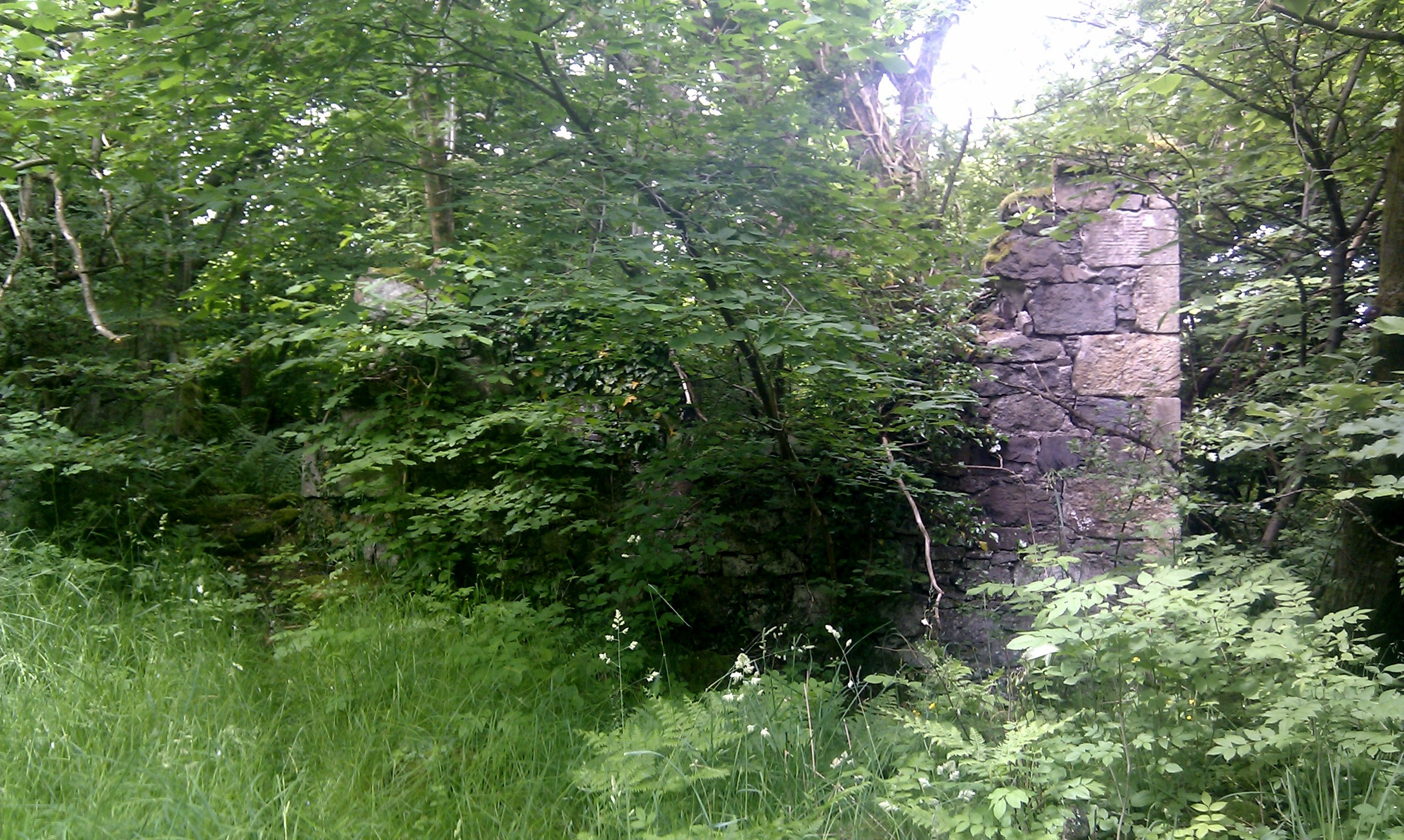 Ruins of Linnister Farm, Howwood, East Renfrewshire, Scotland